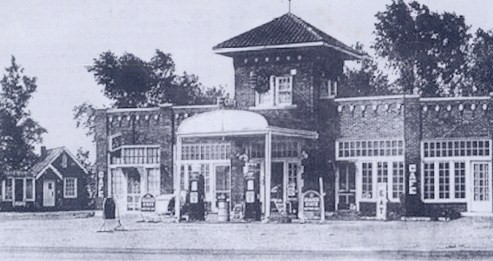 Exterior of Red Crown gunbattle site